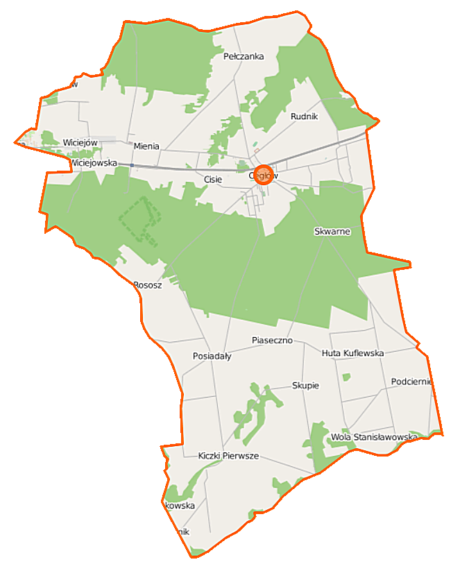 Map of Gmina Cegłów, Poland This map of Cegłów (gmina) was created from OpenStreetMap project data, collected by the community. This map may be incomplete, and may contain errors. Don't rely solely on it for navigation. Border coordinates52.189321.6352←↕→21.817552.0508